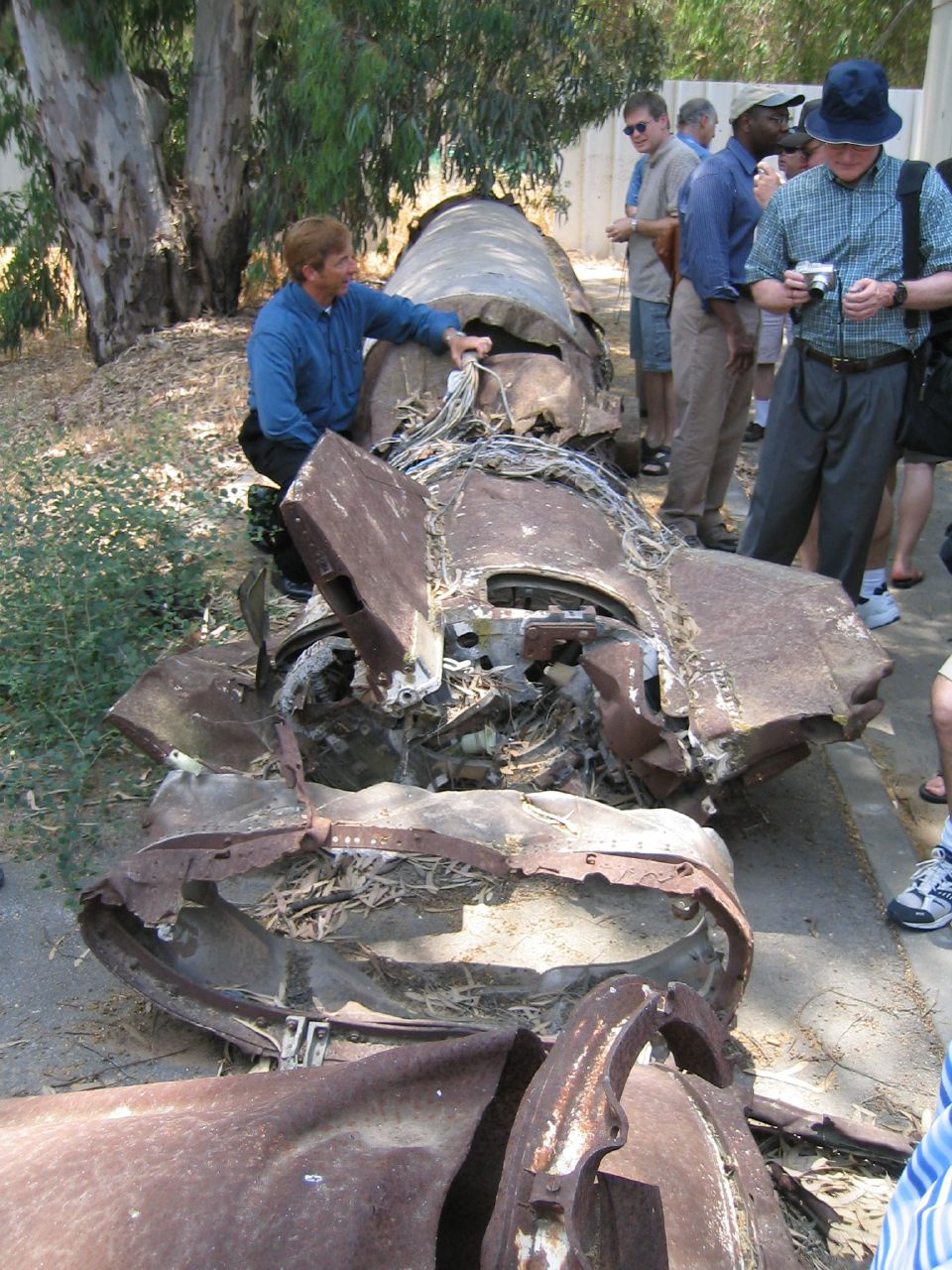 Remnant of a Scud missile which fell on Tel Aviv during the Gulf War of 1991